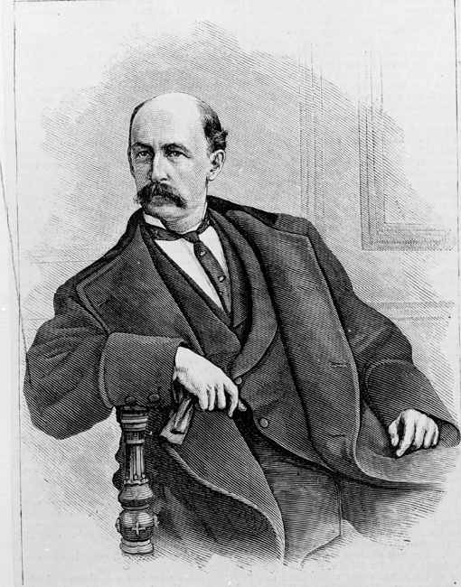 Daniel Henry Chamberlain as Governor of South Carolina